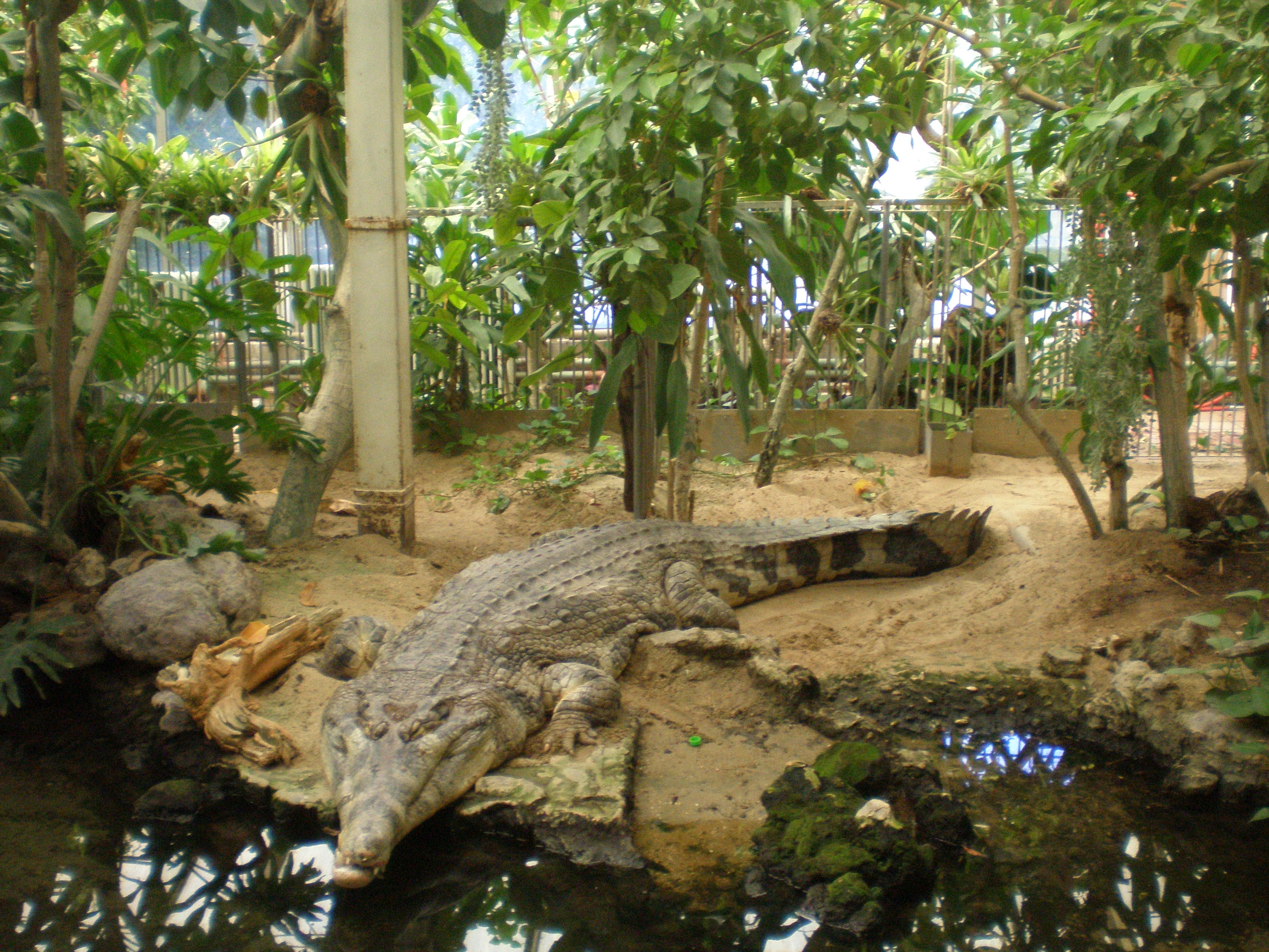 The False gharial (Tomistoma schlegelii).